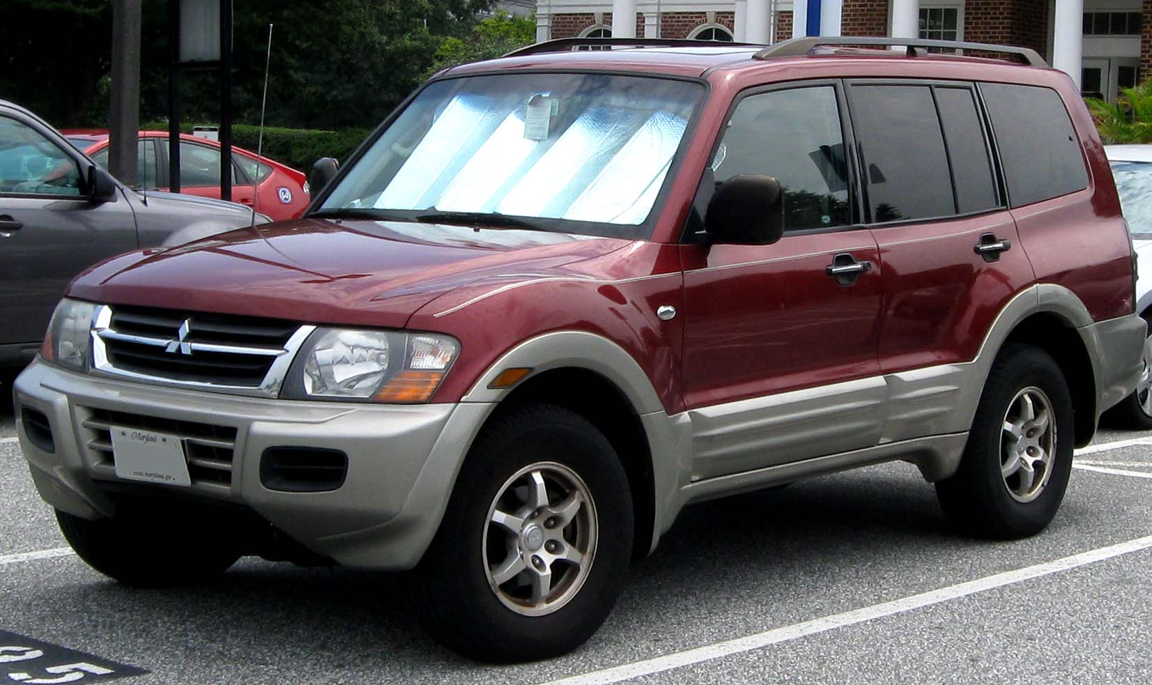 2001-2002 Mitsubishi Montero photographed in College Park, Maryland, USA.